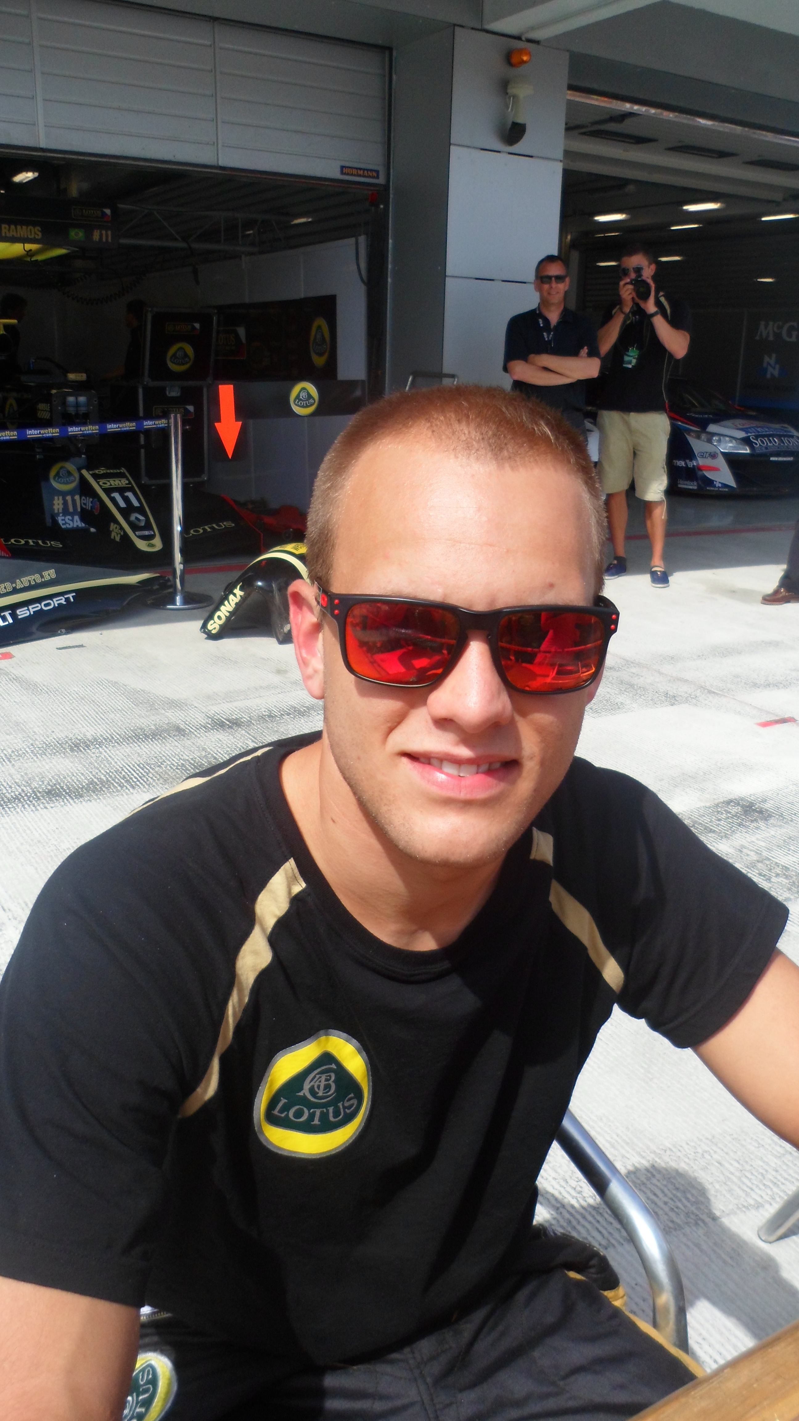 Marco Sørensen on autograph session at Moscow Raceway, 14 July 2012